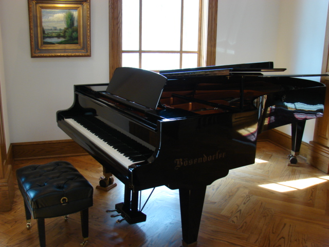 Northeast Indiana Regional Partnership 2008 Spring Investor Board Meeting Pizza Hut Corporate Office | Fort Wayne, IN February 28, 2008